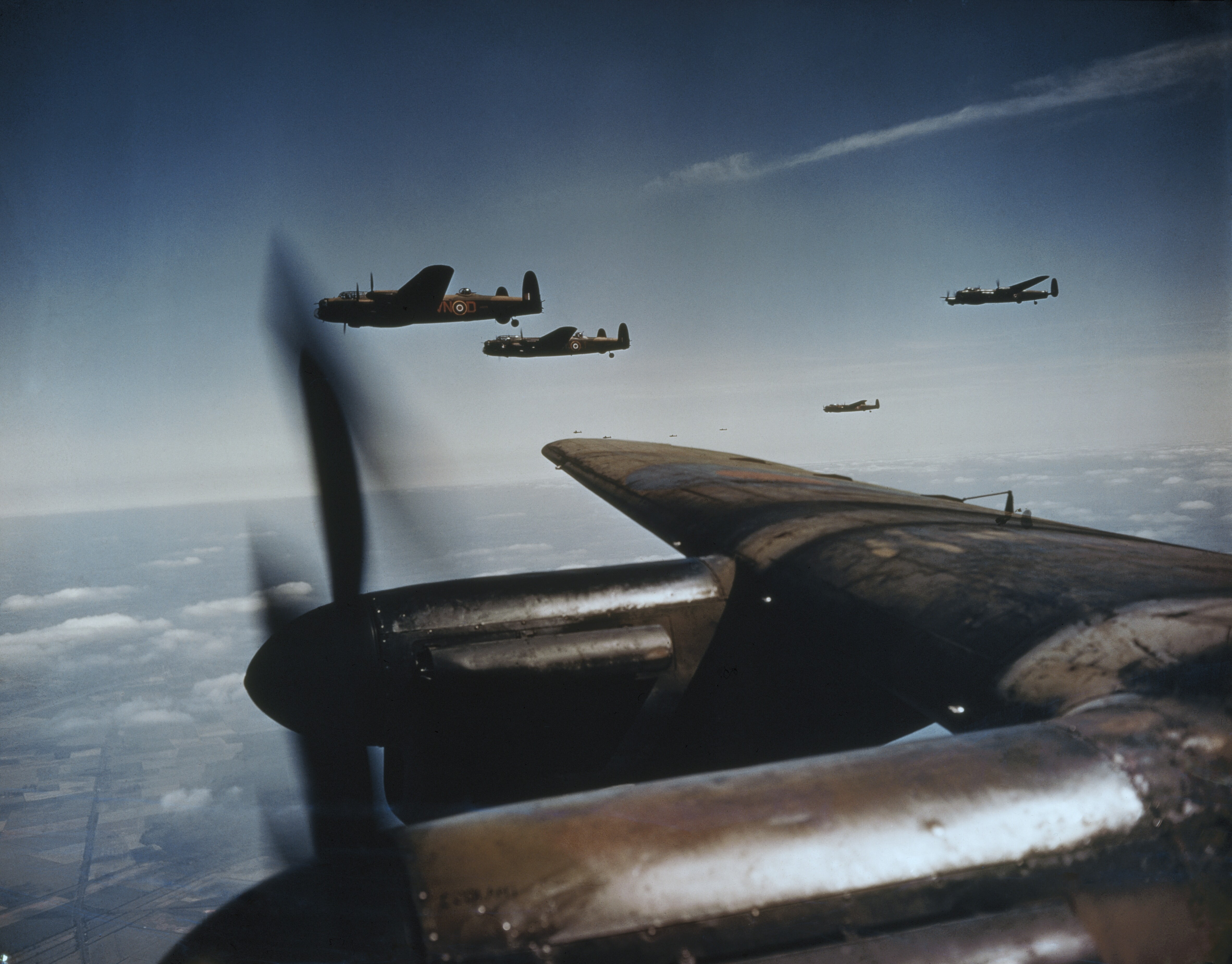 Lancaster B Mark Is of No 50 Squadron, Royal Air Force, based at Skellingthorpe, flying in spread formation. The two aircraft beyond the wing tip are 'VN-D' and 'VN-J' the former, serial number JA899, was missing on the night of 24 - 25 June 1944 with Pilot Officer L G Peters and crew.